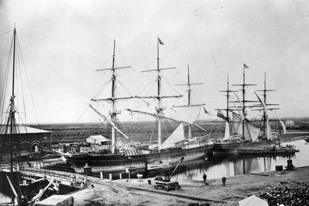 Pekina (Ship), 1869 Pekina on the left, Coonatto (Coonato) on the right, May 1867 or 1869 at Port Adelaide. (Description supplied with photograph) The Coonatto was a large three-masted ship of 633 tons. She was built in London at the shipyard of Thomas Bible in 1863. Wrecked in 1876 off Beachy Head, Eastbourne, England.